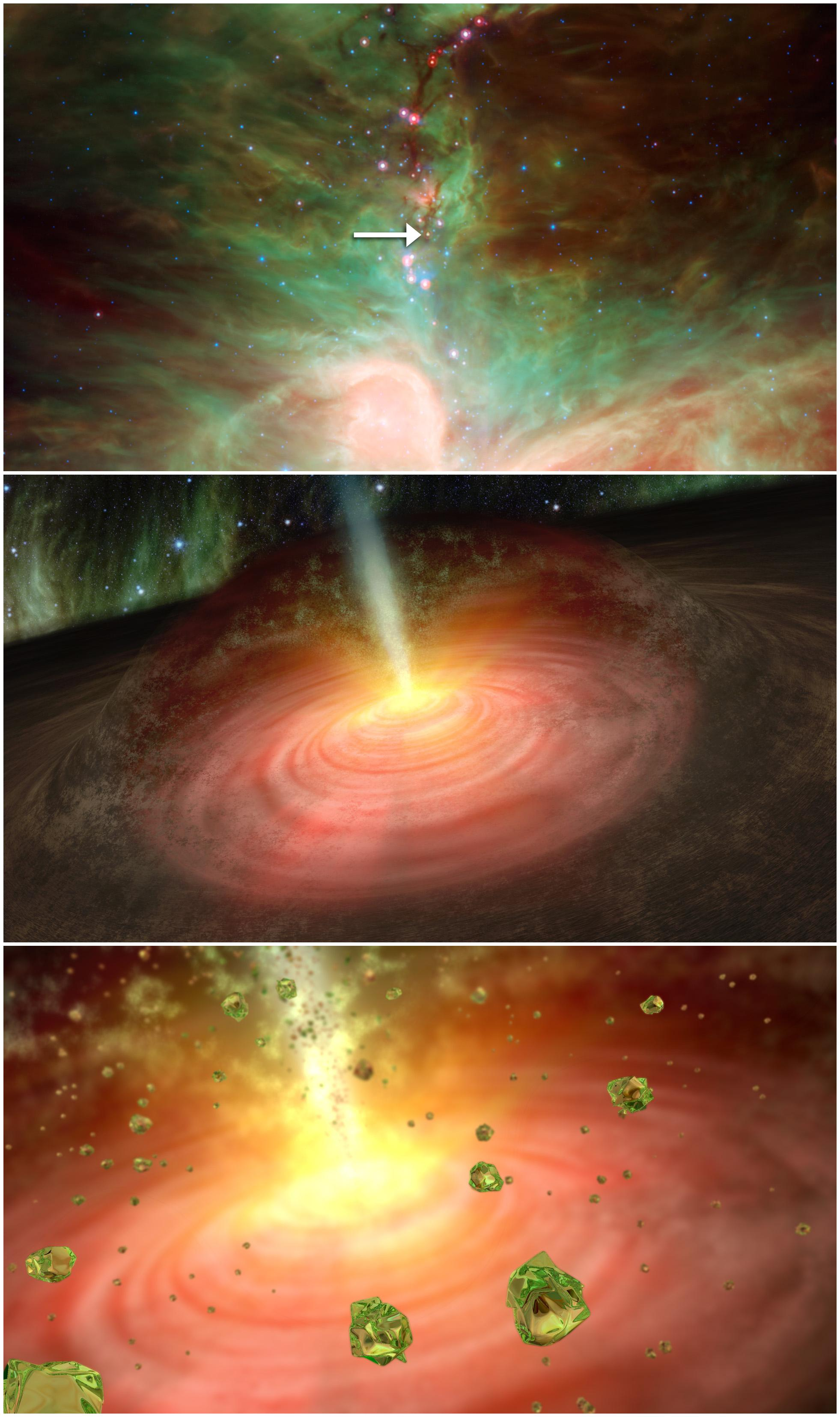 Cosmic Fountain of Crystal Rain NASA's Spitzer Space Telescope detected tiny green crystals, called olivine, thought to be raining down on a developing star. This graphic illustrates the process, beginning with a picture of the star and ending with an artist's concept of what the crystal "rain" might look like. The top picture was taken in infrared light by NASA's Spitzer Space Telescope. An arrow points to the embryonic star, called HOPS-68. The middle panel illustrates how the olivine crystals are suspected to have been transported into the outer cloud around the developing star, or protostar. Jets shooting away from the protostar, where temperatures are hot enough to cook the crystals, are thought to have transported them to the outer cloud, where temperatures are much colder. Astronomers say the crystals are raining back down onto the swirling disk of planet-forming dust circling the star, as depicted in the final panel.